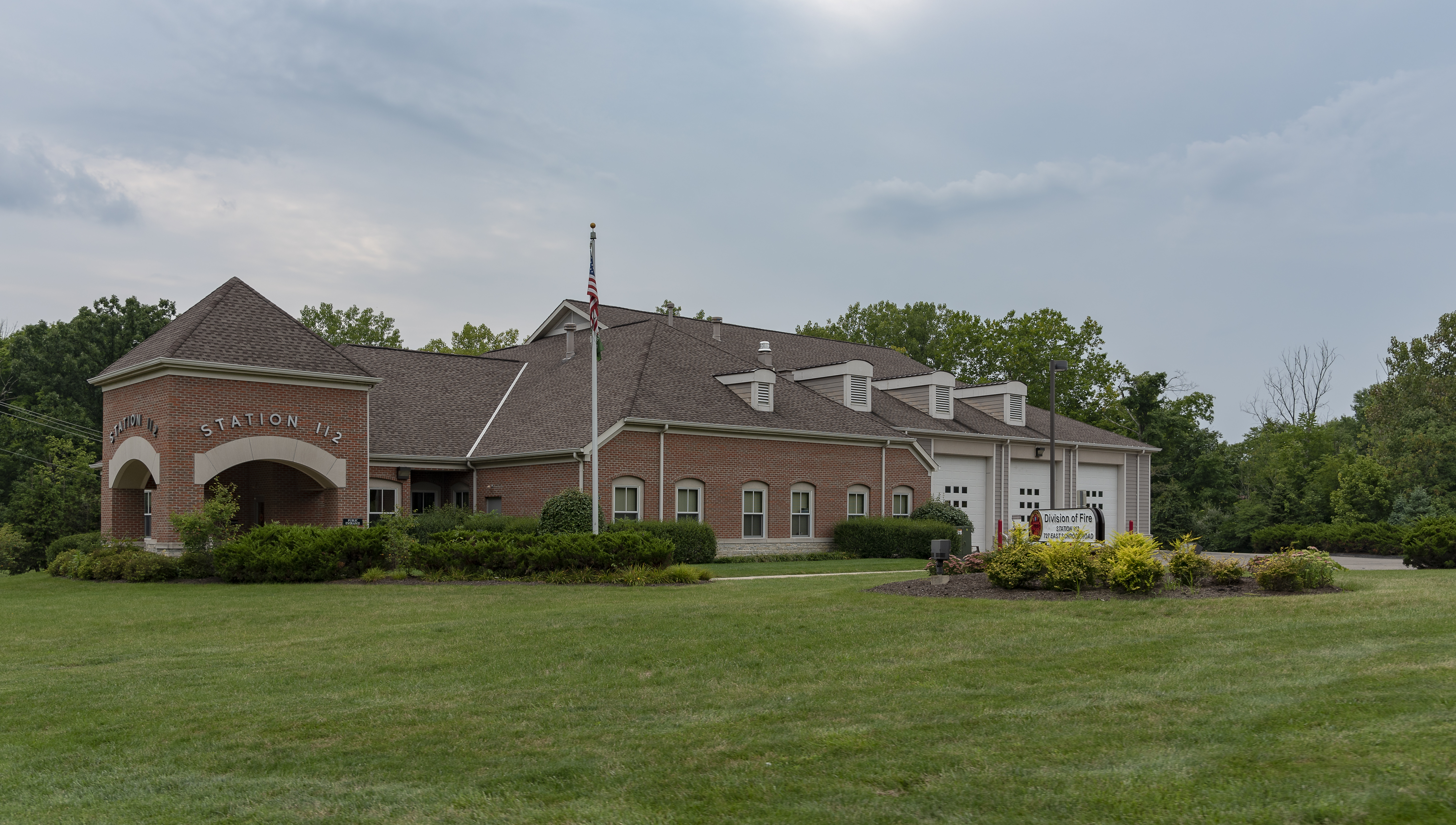 Fire station 112 is one of three fire stations positioned throughout the city of Westerville, Ohio to allow the fire department to provide a claimed 4-minute average response time.